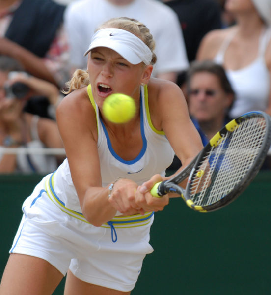 Caroline Wozniacki at the 2006 Wimbledon girls final.